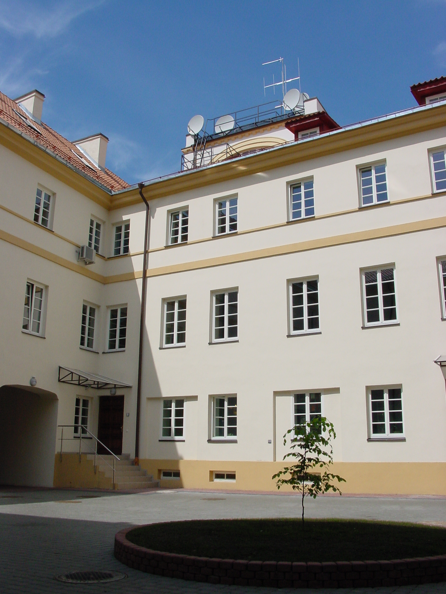 filosofijos fakulteto kiemas